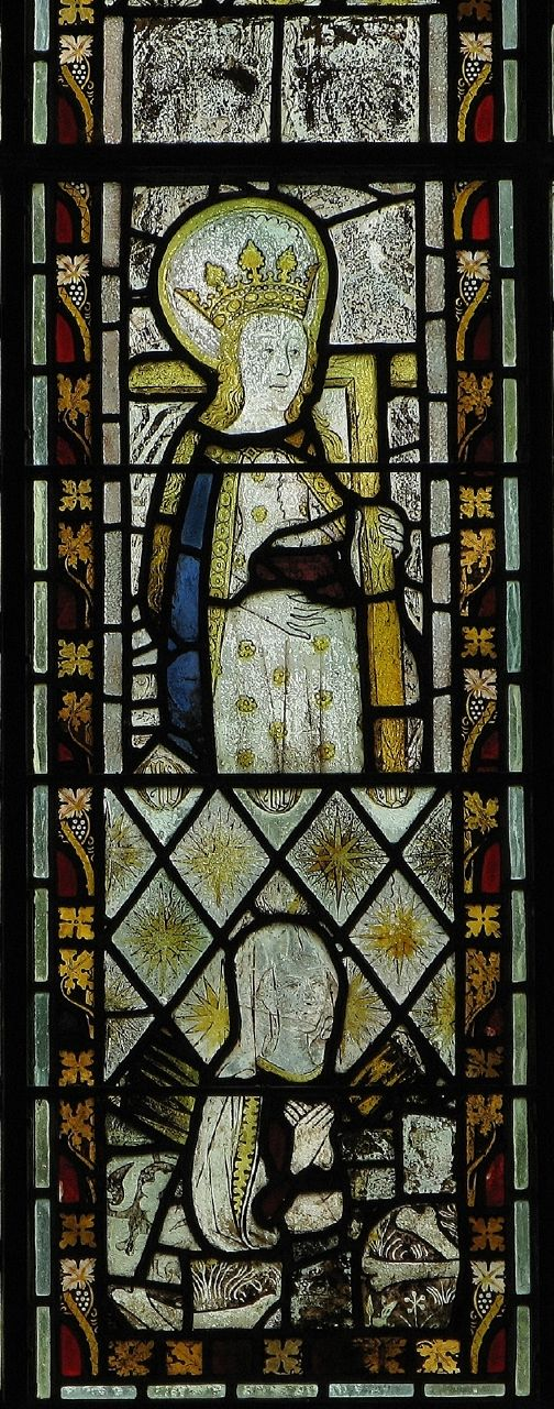 (St Mary and St Barlok)Stained glass in chancel E window,C15th detail in church in Norbury, Derbyshire